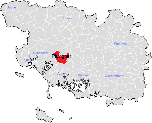 placement Pluvigner in departement Morbihan